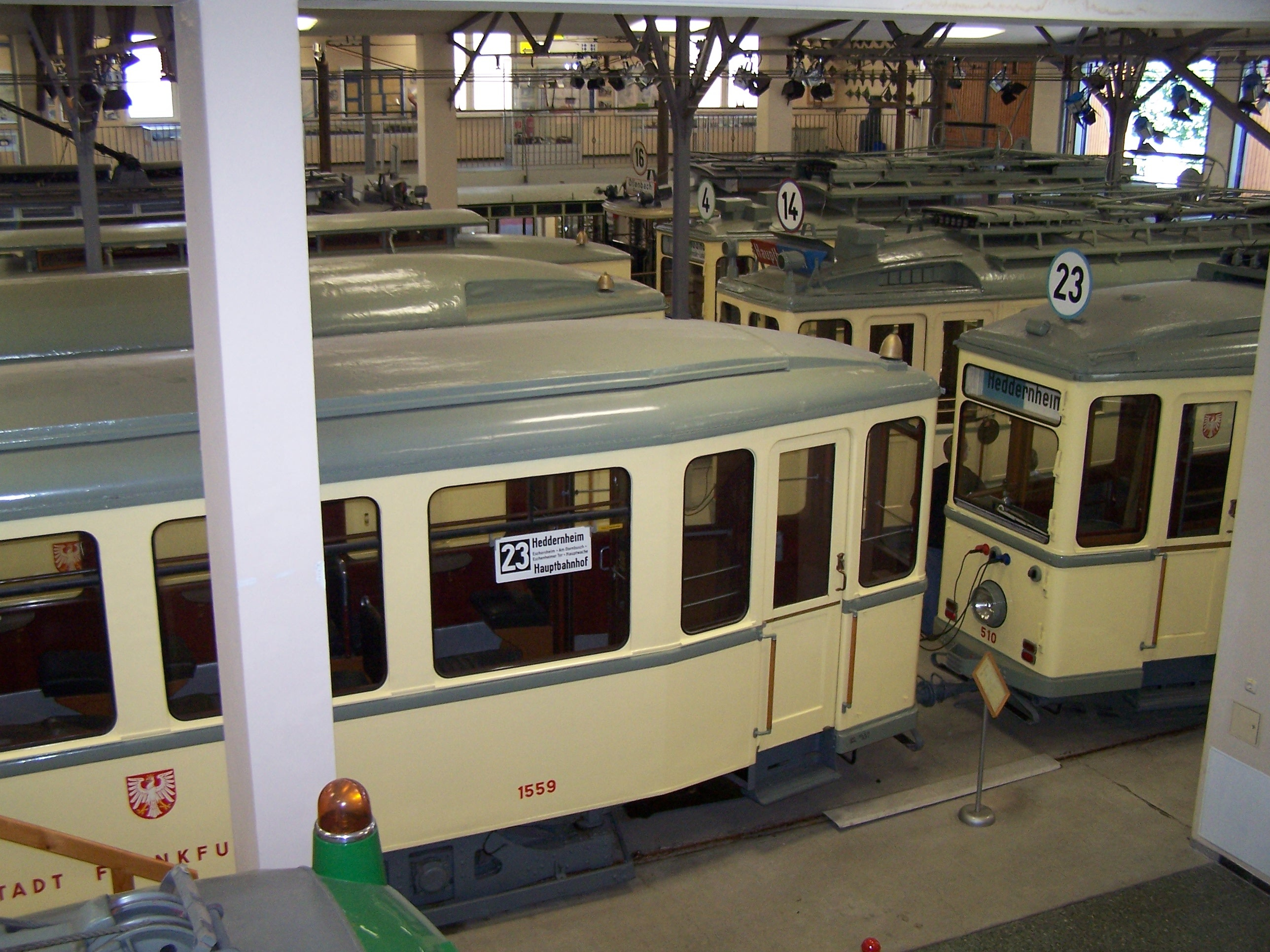 View in the western hall of the Frankfurt on Main Transport Museum in Frankfurt am Main--Schwanheim